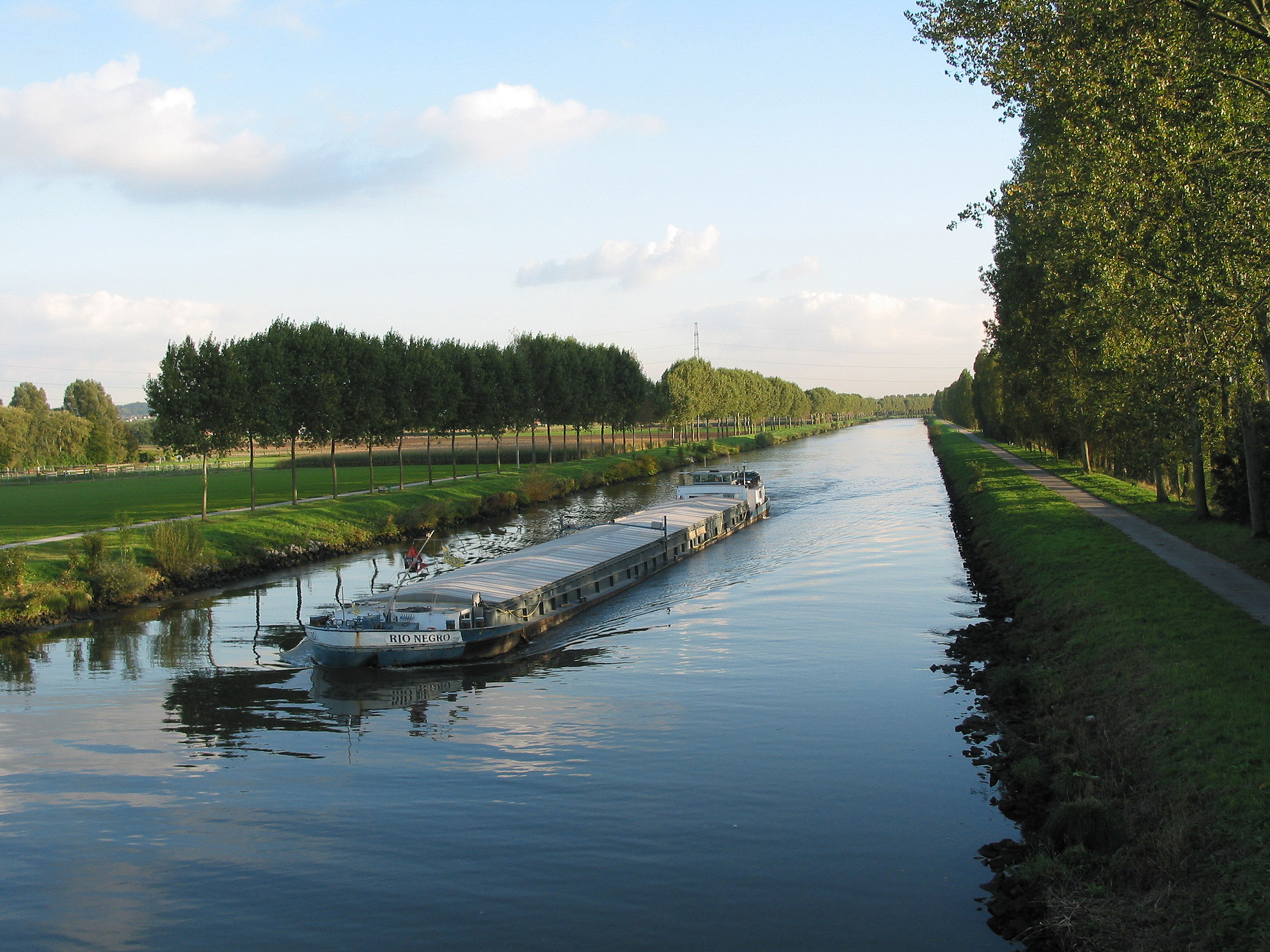 Pecq (Belgium), Escaut river uptream.